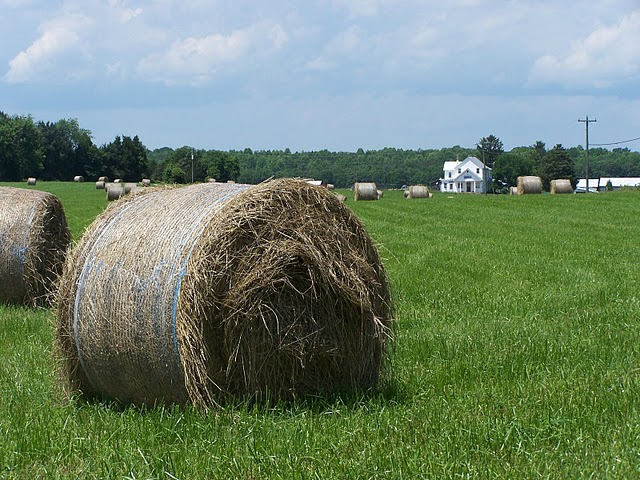 Groves Store and Somerville Post Office, surrounded by farmland in Fauquier County, Virginia, is itself the self-described "Downtown Somerville".